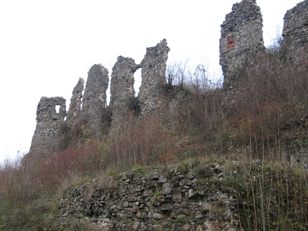 Khust castle